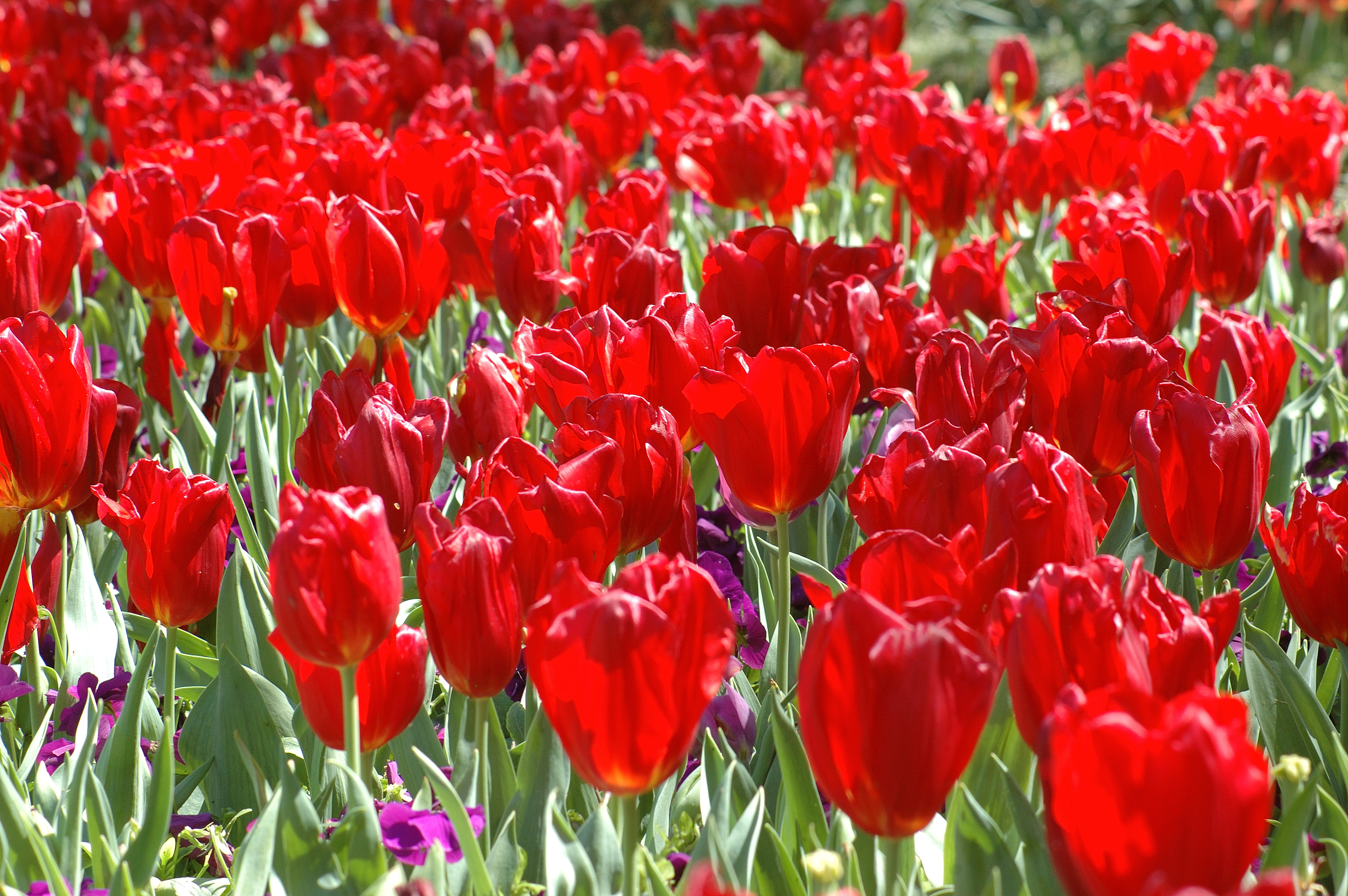 Red tulips.Red Tulip